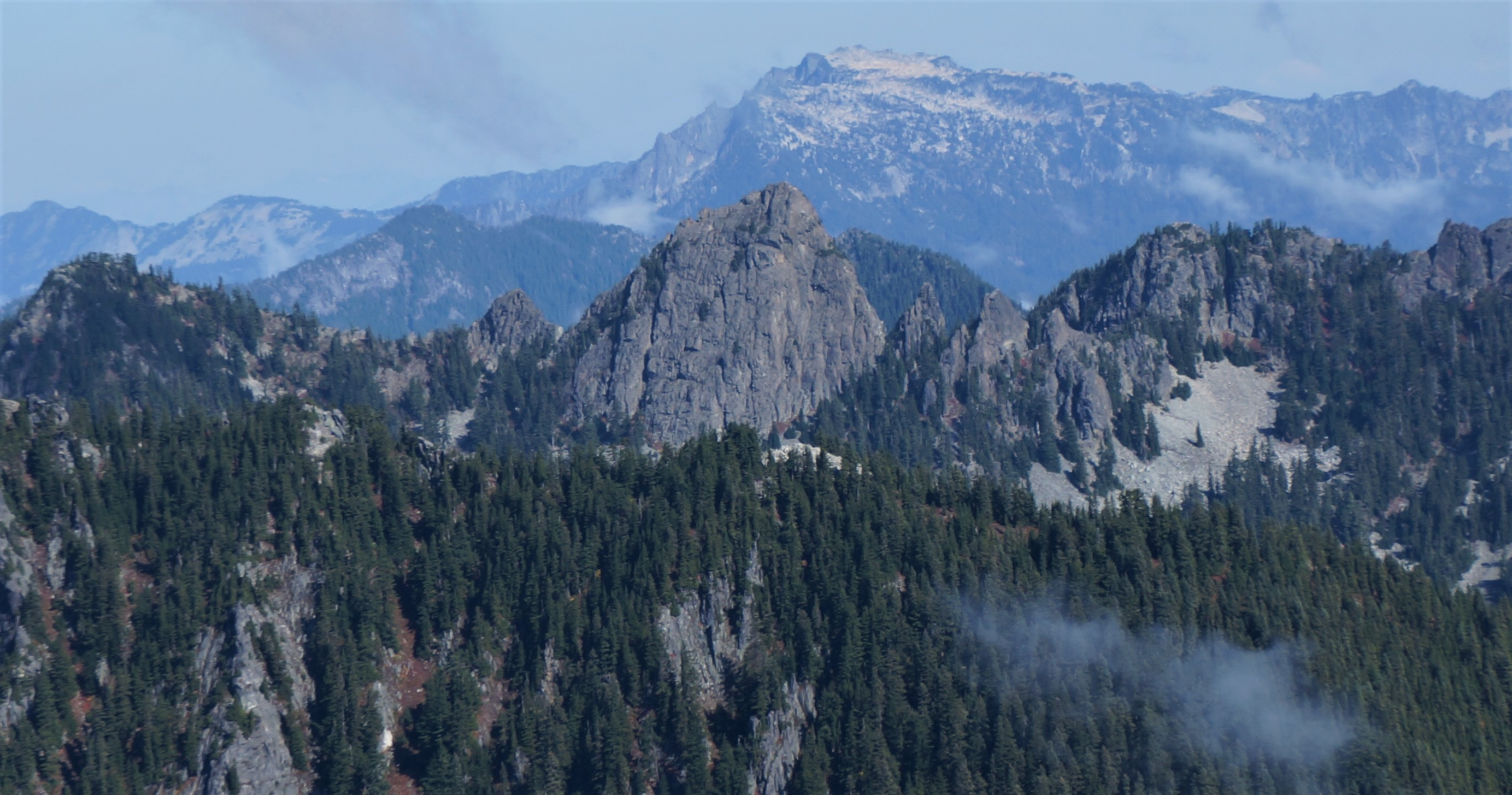 The Tooth. with Big Snow Mountain in the distance